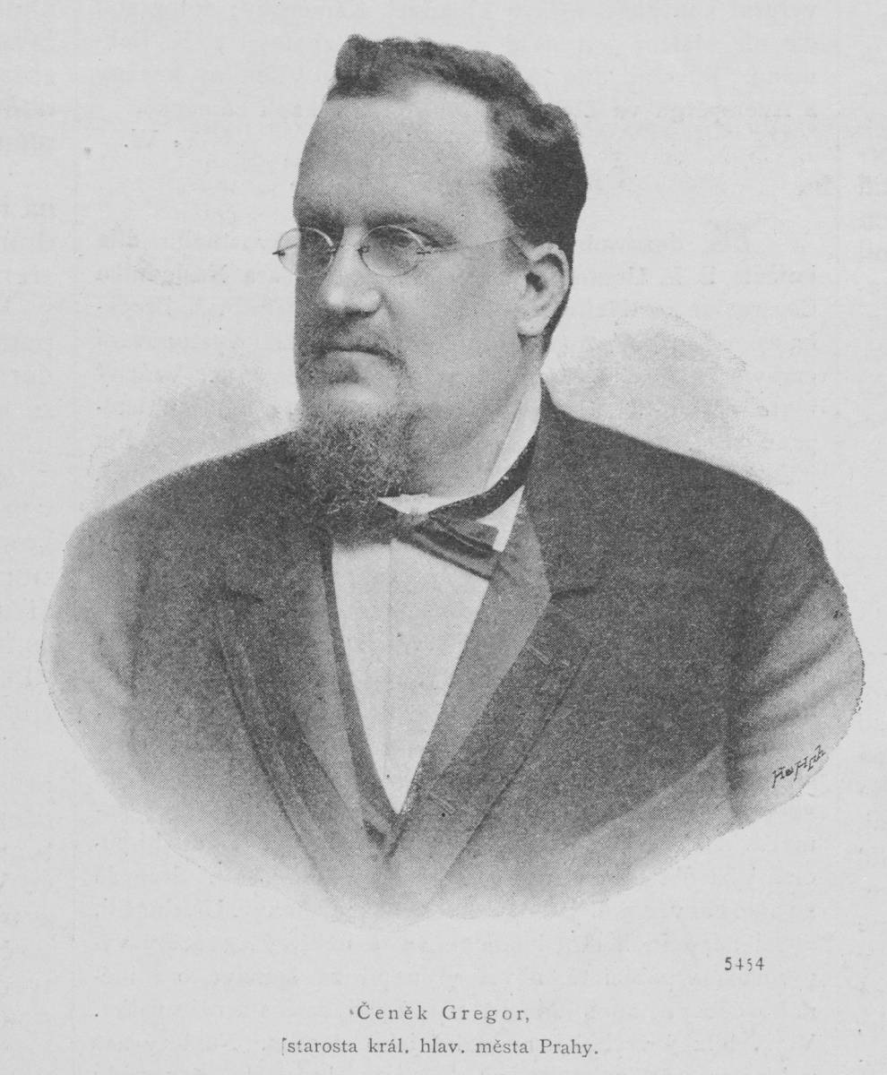 Photograph of Čeněk Gregor (1847–1917), mayor of Prague 1893–1896.